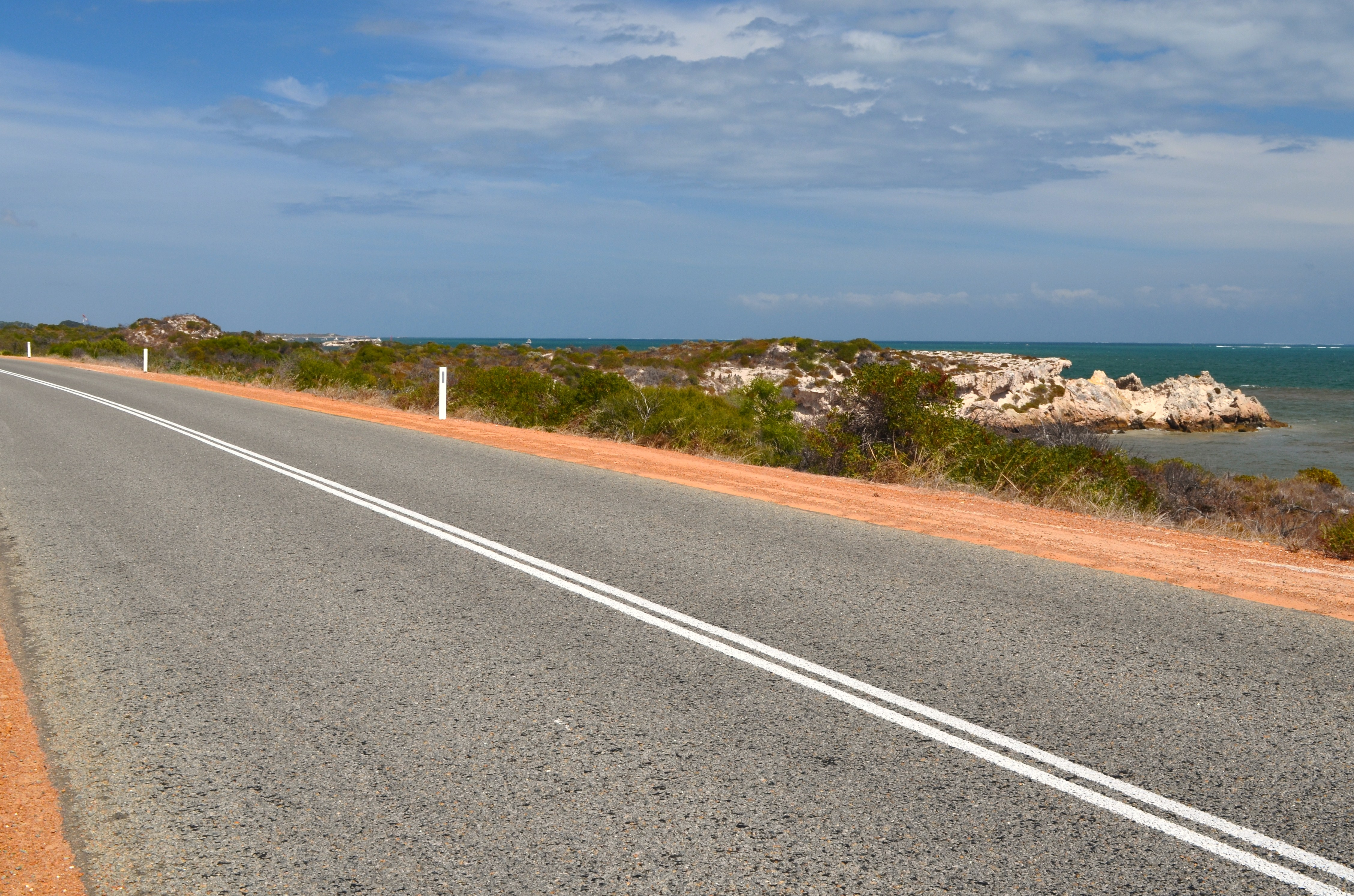 A view of the Indian Ocean Drive looking south, from a point a short distance to the north of Leeman, Western Australia.